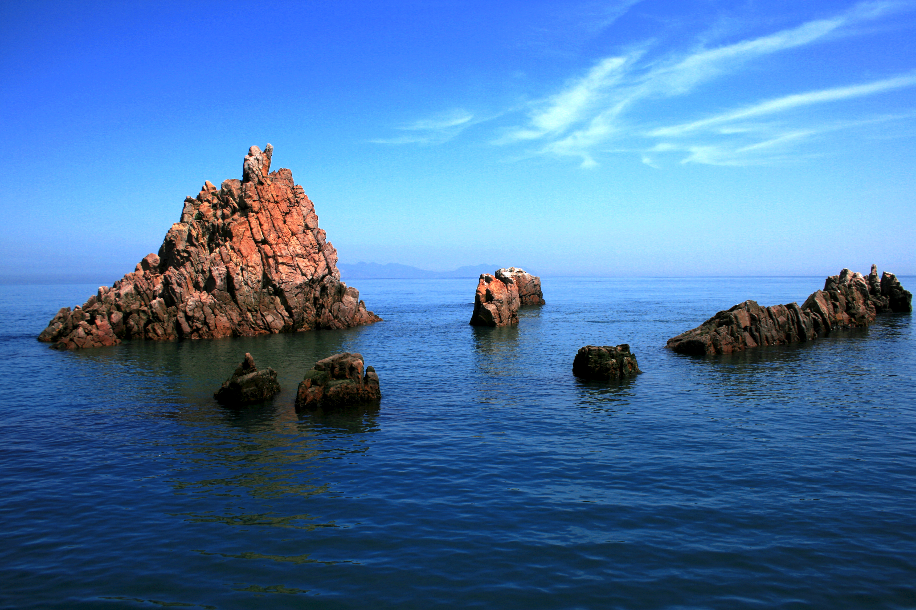 Hongdo Island in the Dadohae National Park area located in Sinan-gu, Jeollanam-do, South Korea.